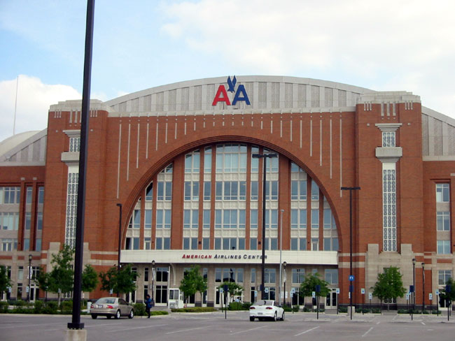 American Airlines Center, home of the Dallas Stars and Dallas Mavericks, seen from outside original text: The American Airlines Center in the Victory Park neighborhood of Dallas, Texas (USA). Personal picture, taken April 17, 2004.